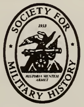 Logo of the Society for Military Histoy of the United States.